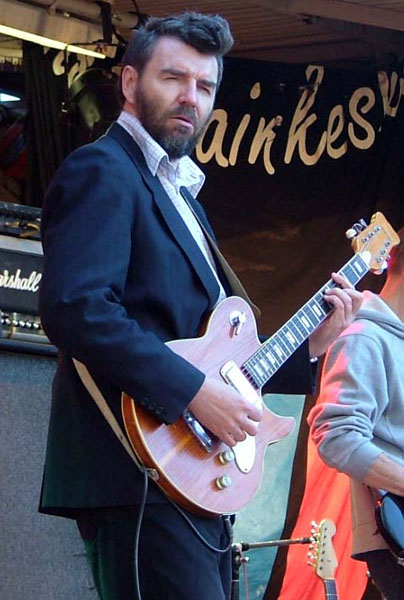 Finnish musician Kauko Röyhkä performing live in Kallio, Helsinki, on May 23, 2004.